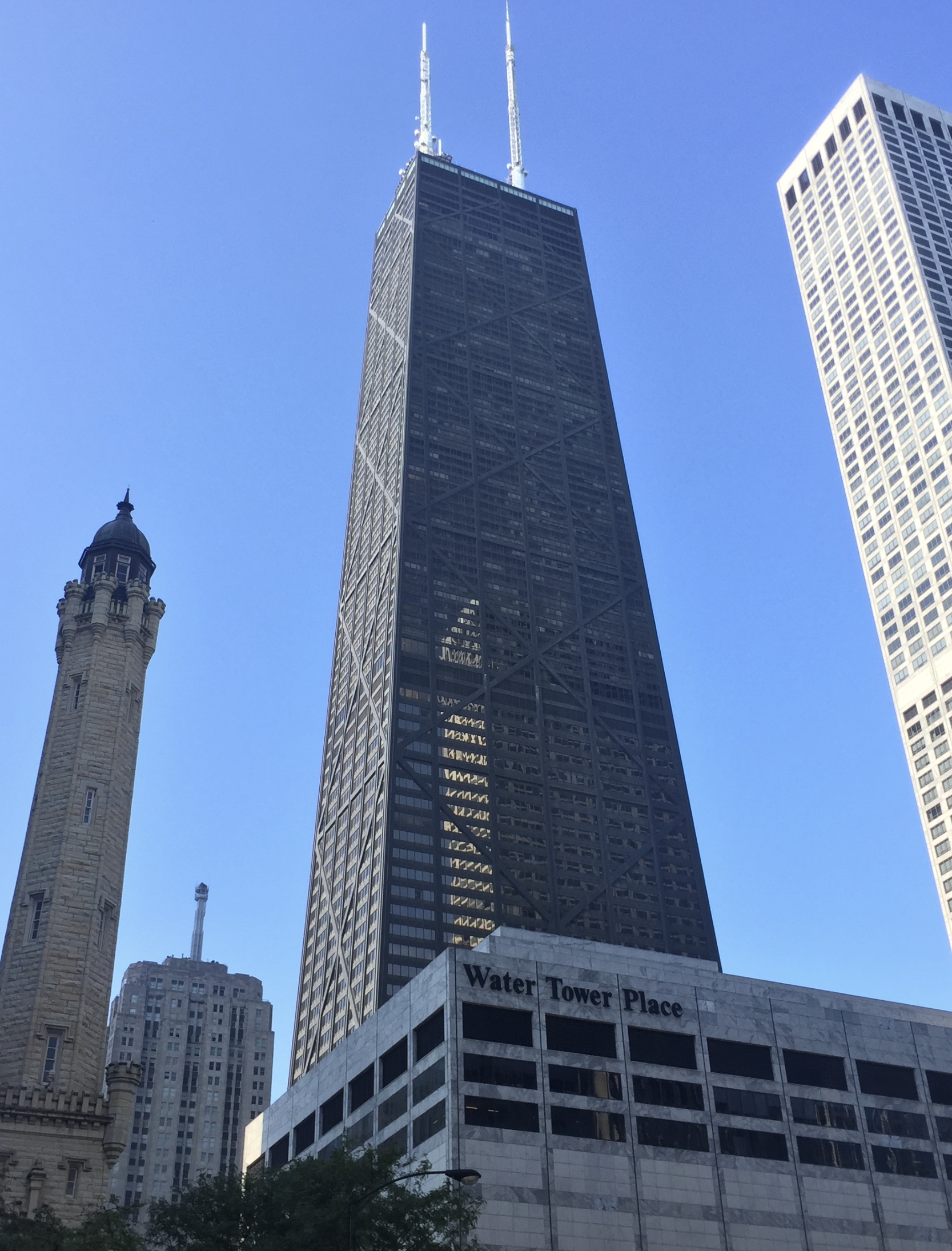 View of 875 North Michigan Avenue in April 2019